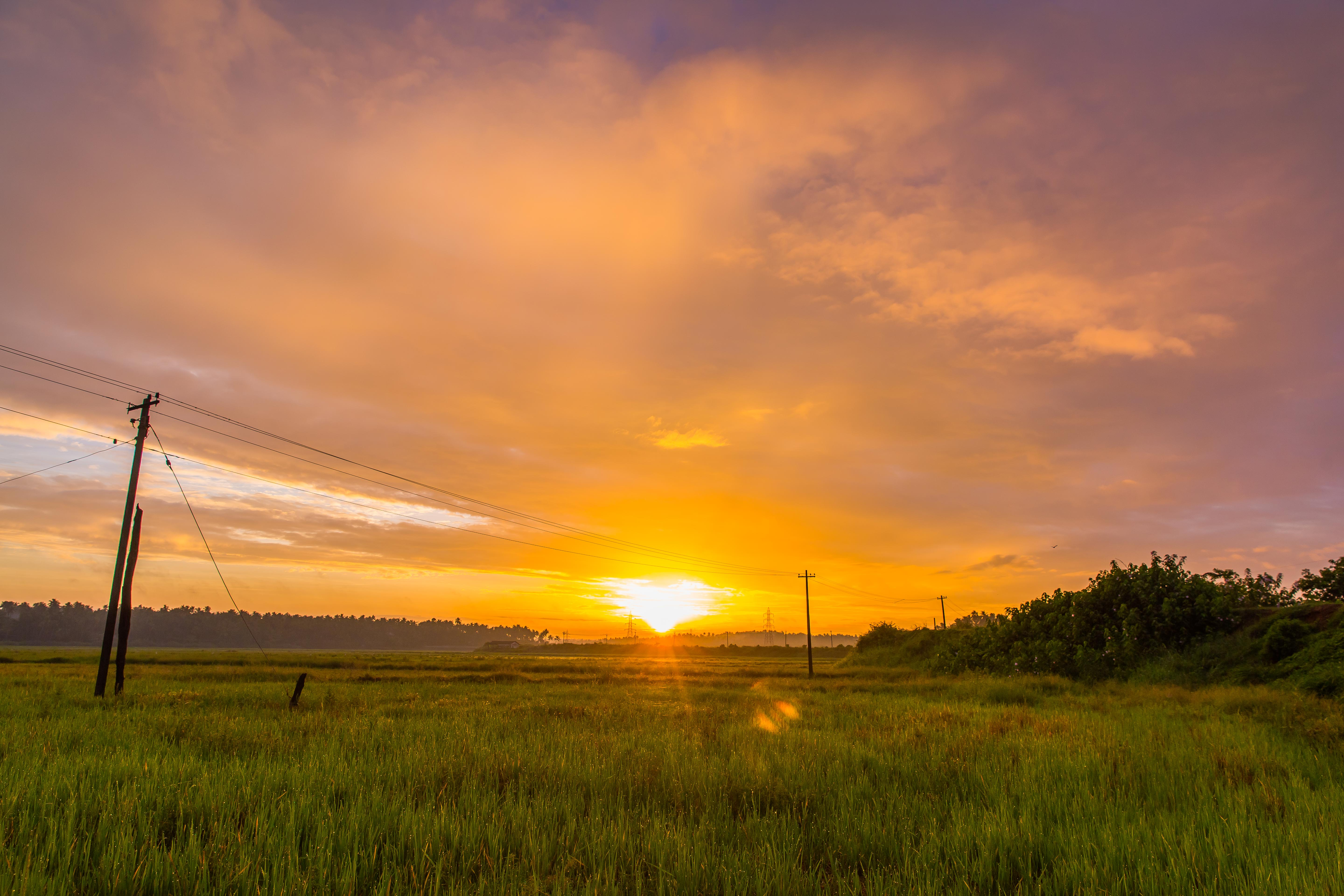 A rain kissed sunrise over the Pullu Padam, in the Heart of Thrissur District, Kerala